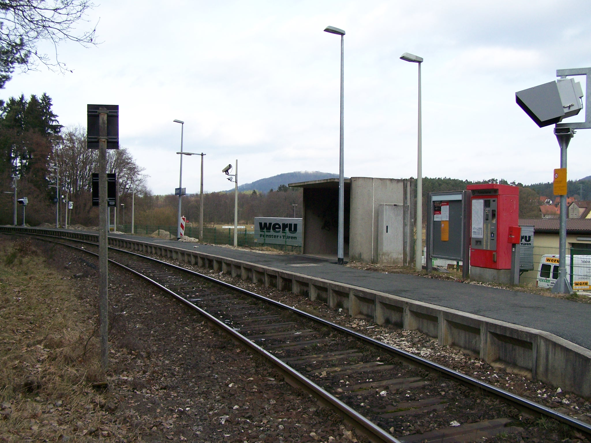 Train station Speikern of the Schnaittachtalbahn, Neunkirchen am Sand, Germany.